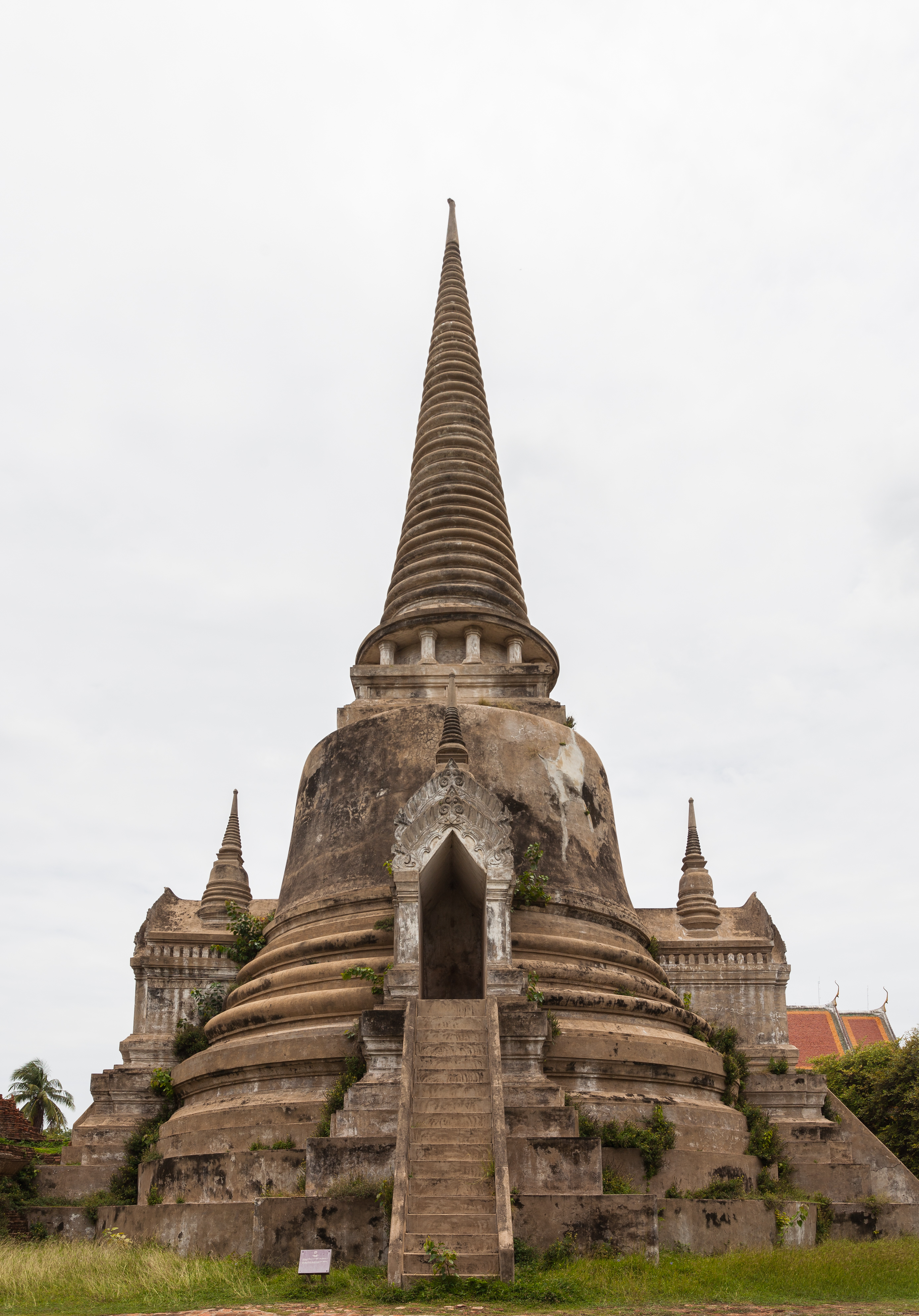 Templo Phra Si Sanphet, Ayutthaya, Tailandia